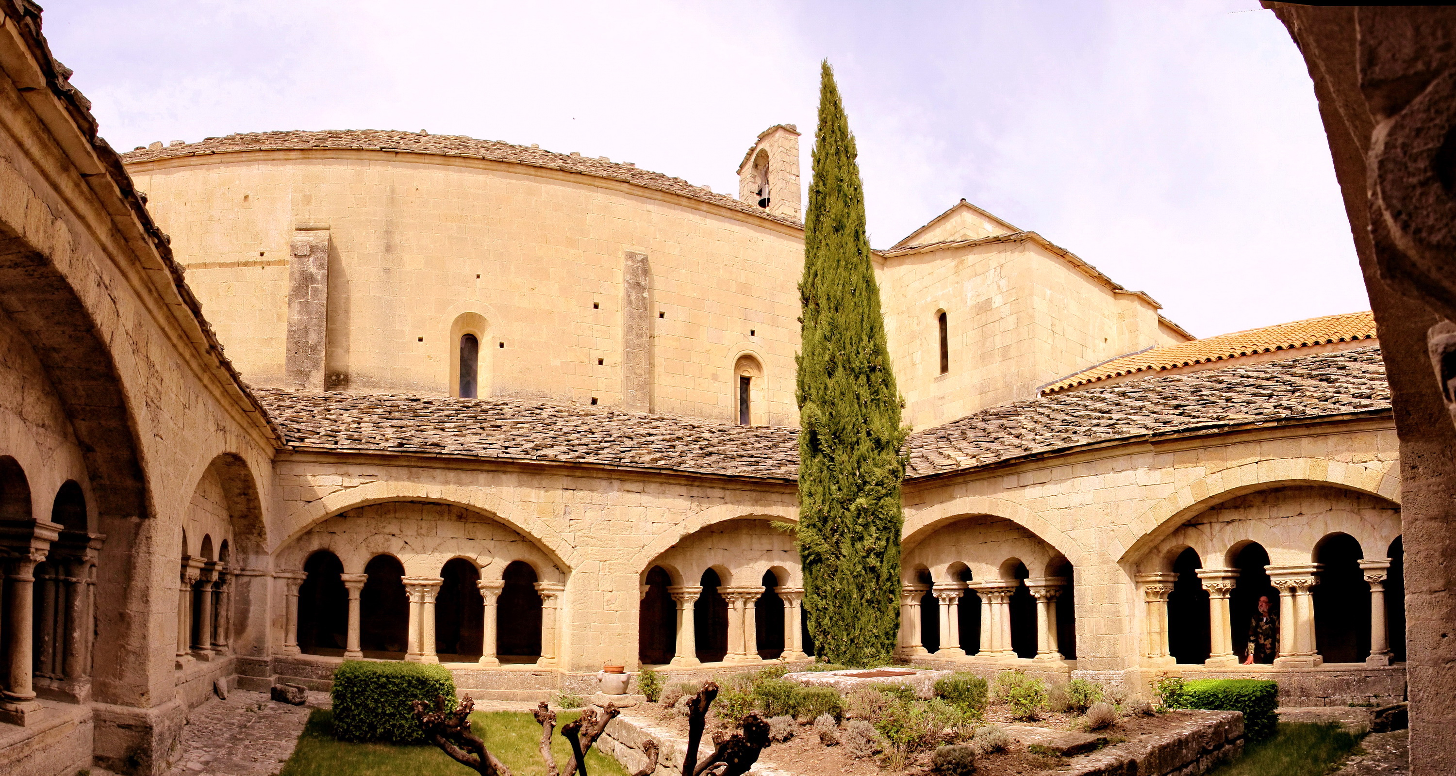 cloister of Ganagobie